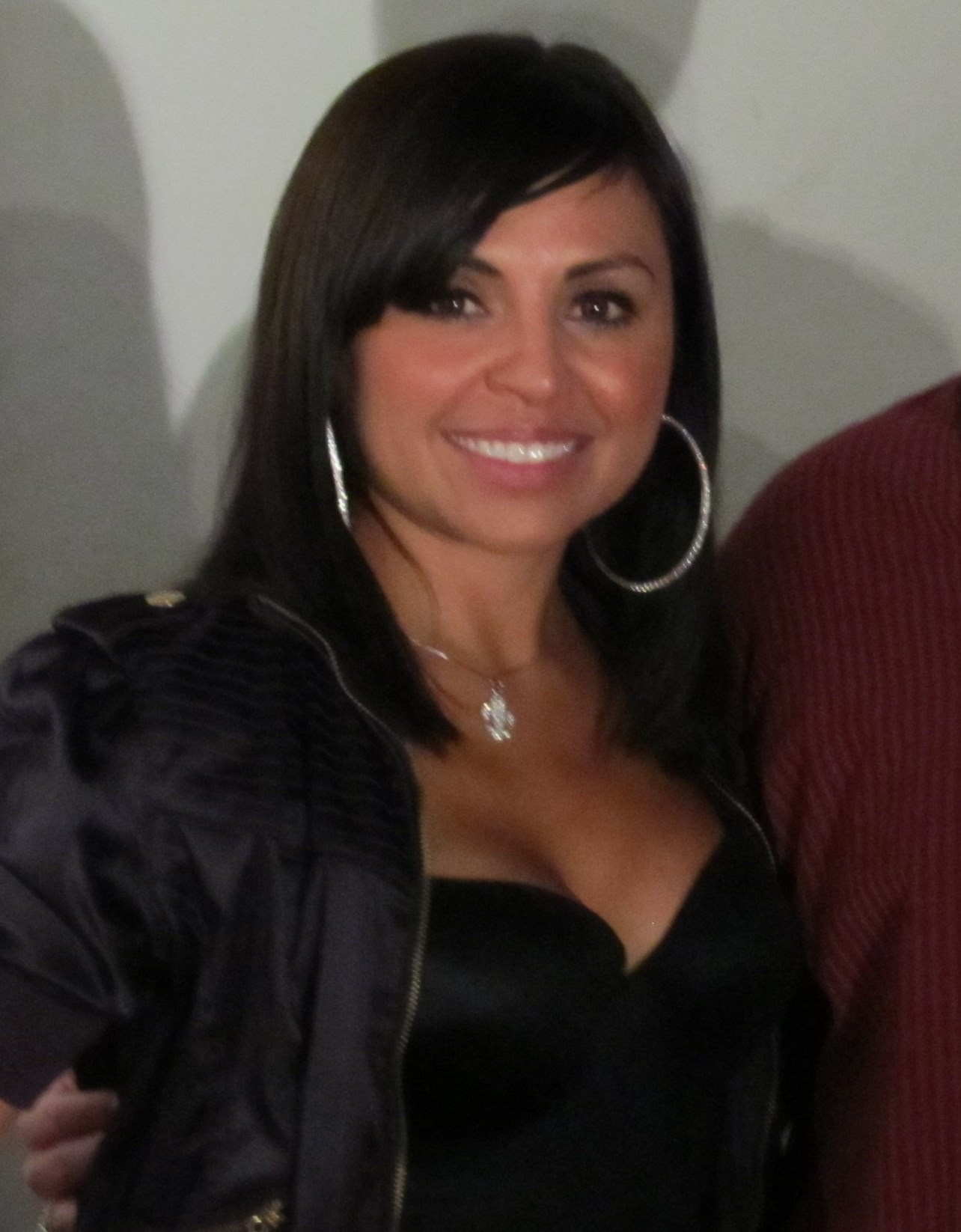 Elida Reyna takes pictures with fans at a dance in Seguin Tx.